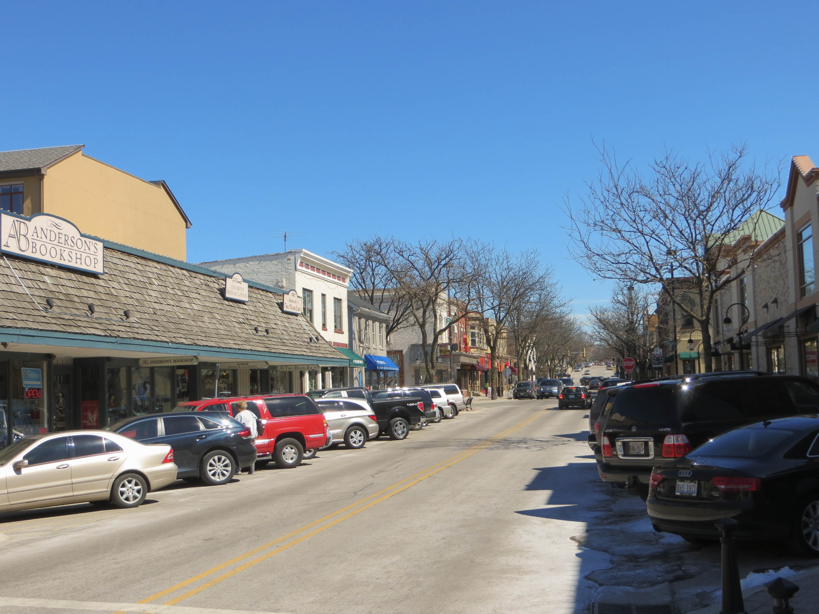 Downtown Naperville